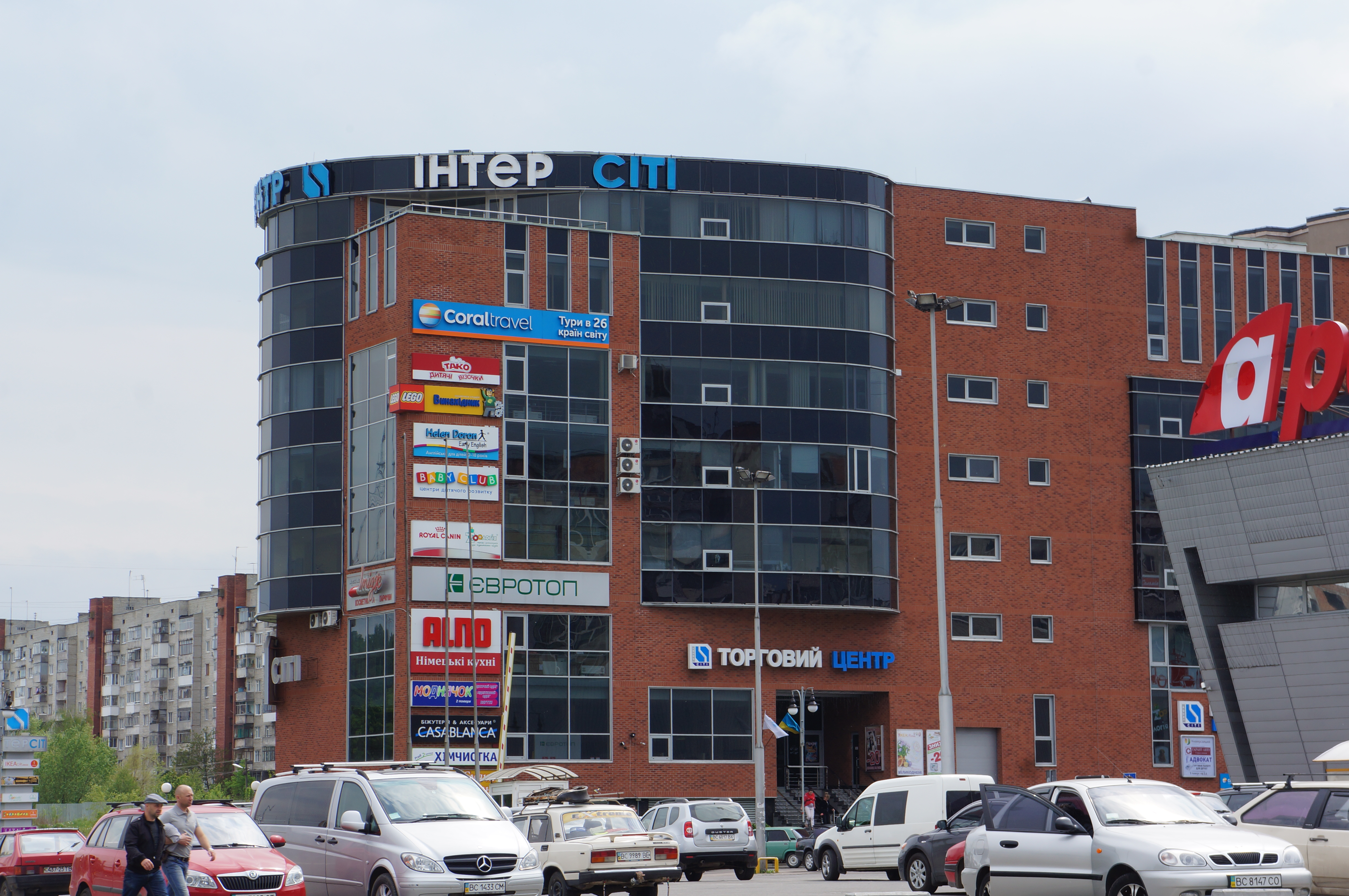 A modern shopping centre in Lviv